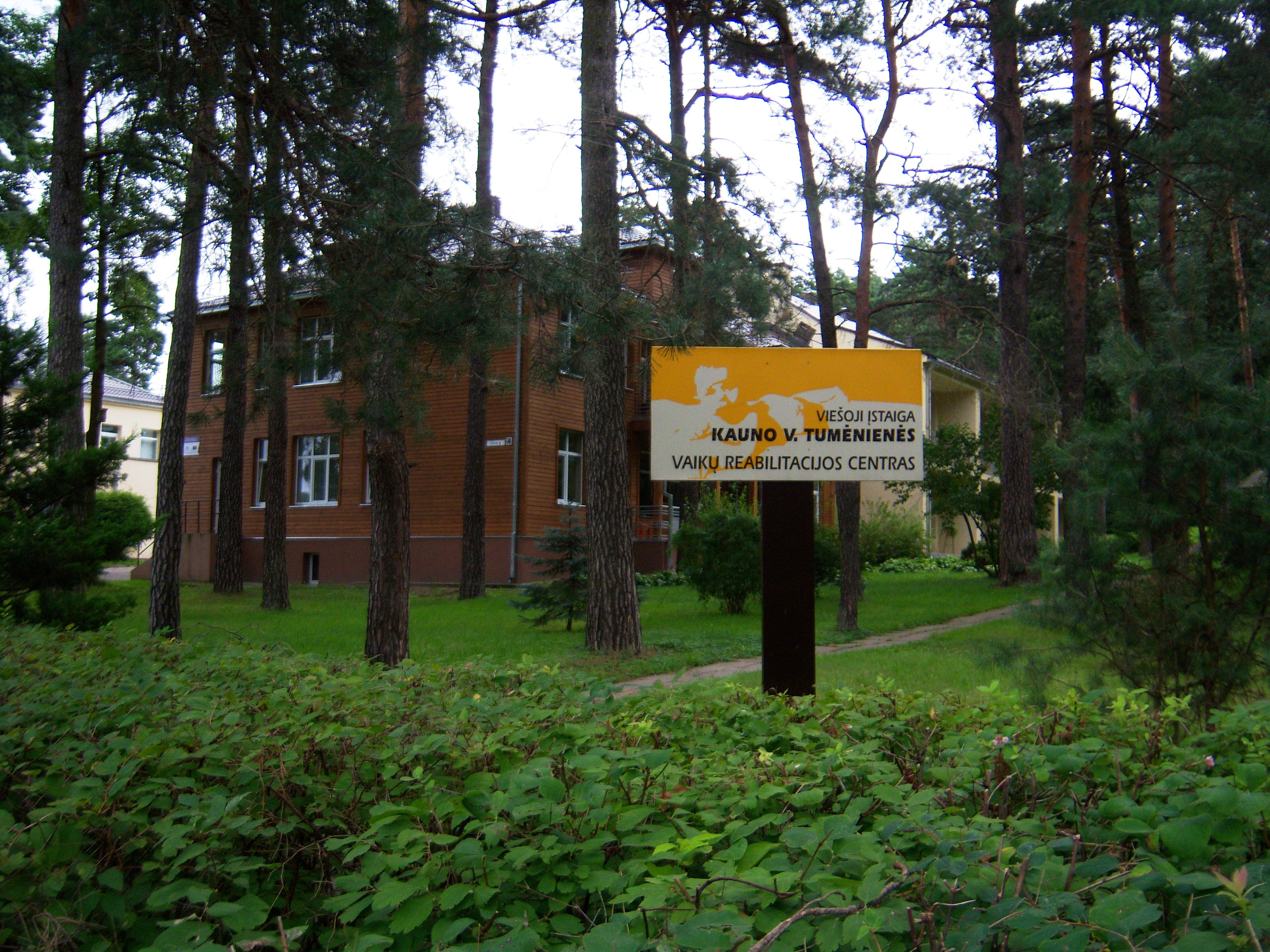 V Tumėnienė Children's Rehabilitation Center School, Kaunas, Lithuania